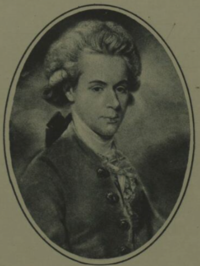 James Price (1752–1783) English chemist and alchemist.